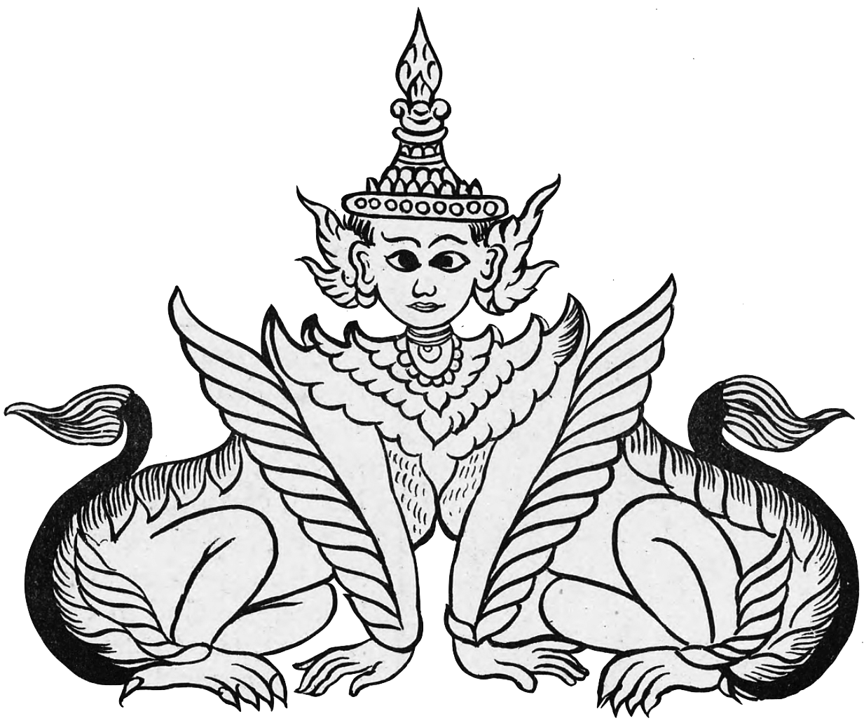 Manussiha (Manokthiha) in Burmese representation